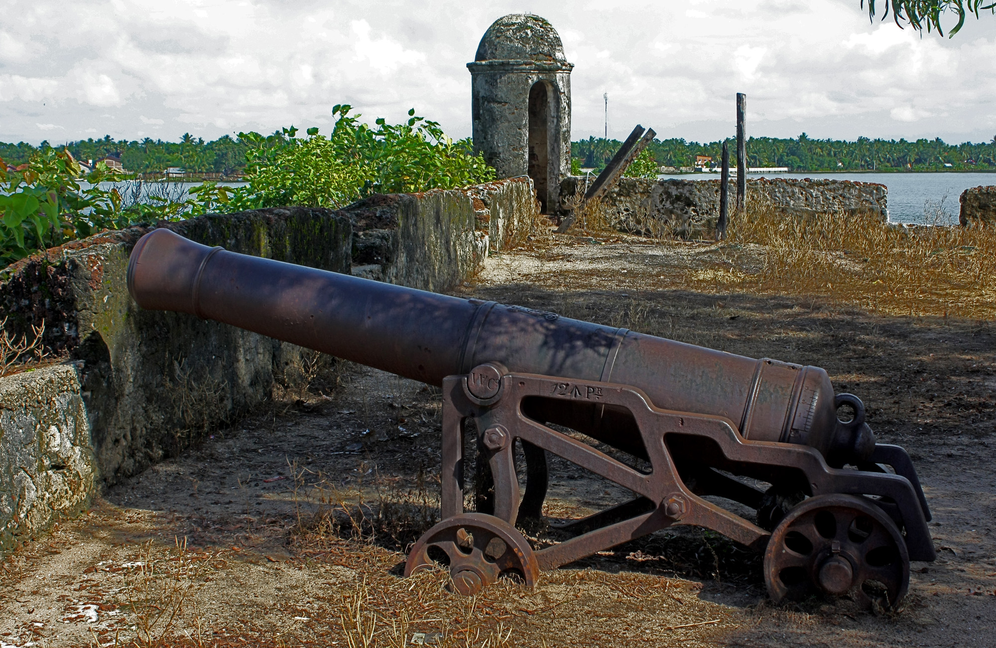 Cannon in Batticaloa Portuguse Fort and sentry-box seen in distance